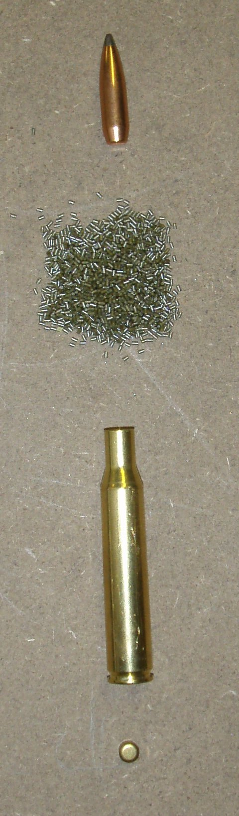 example picture showing components of a round of ammunition